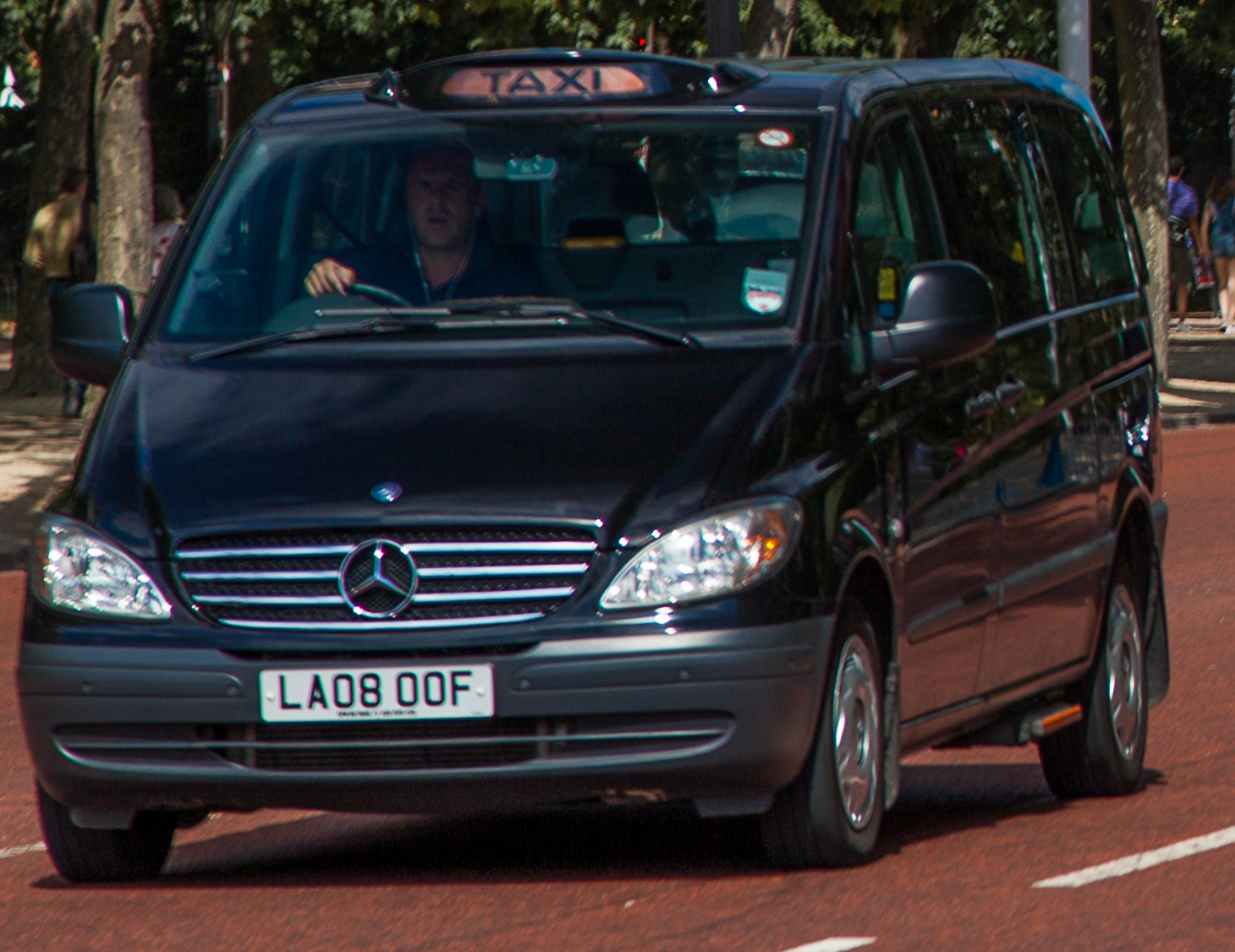 Taxis - Londres - London - photo picture image photography